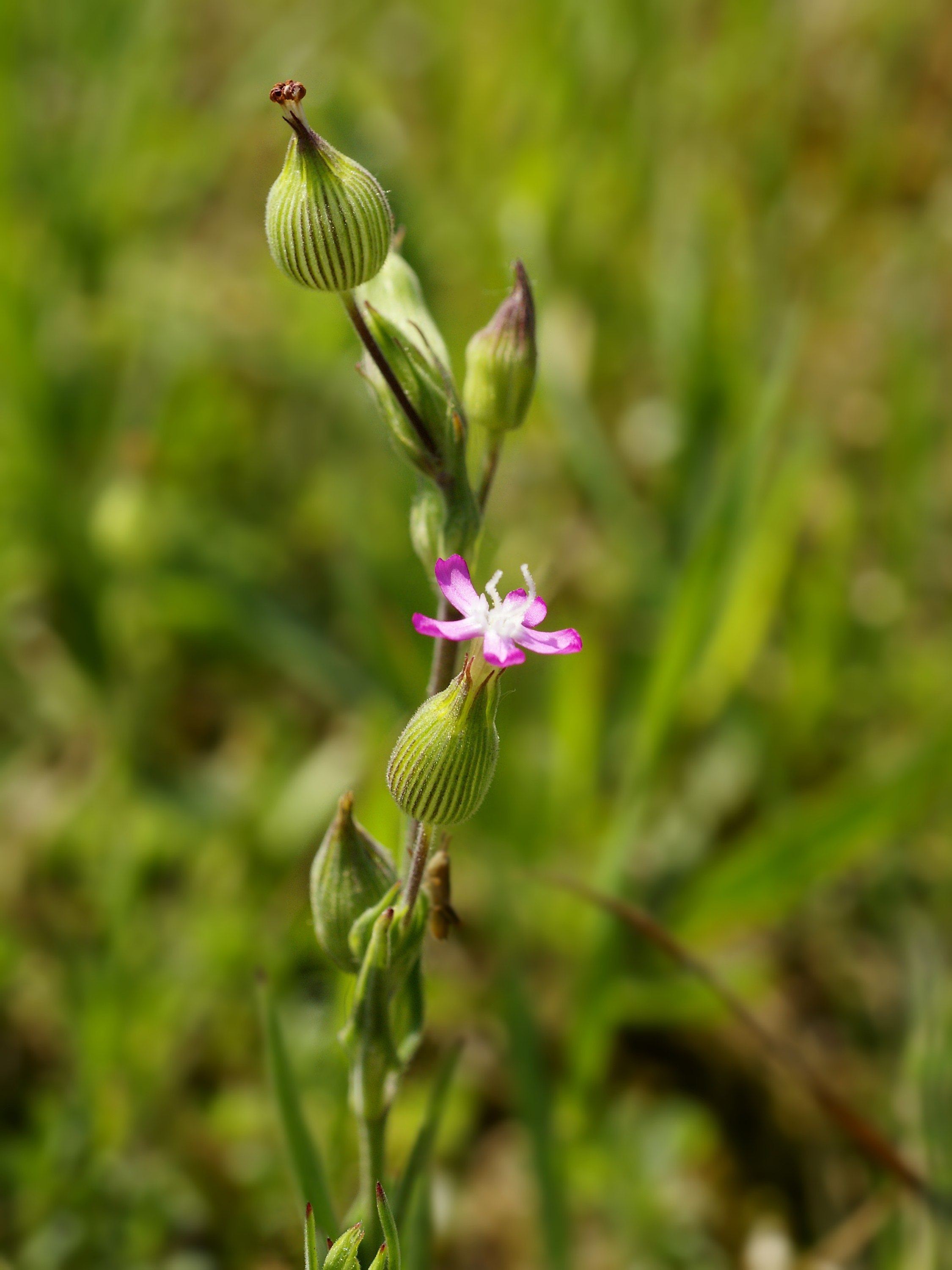 at Vosselslag - De Haan, Belgium